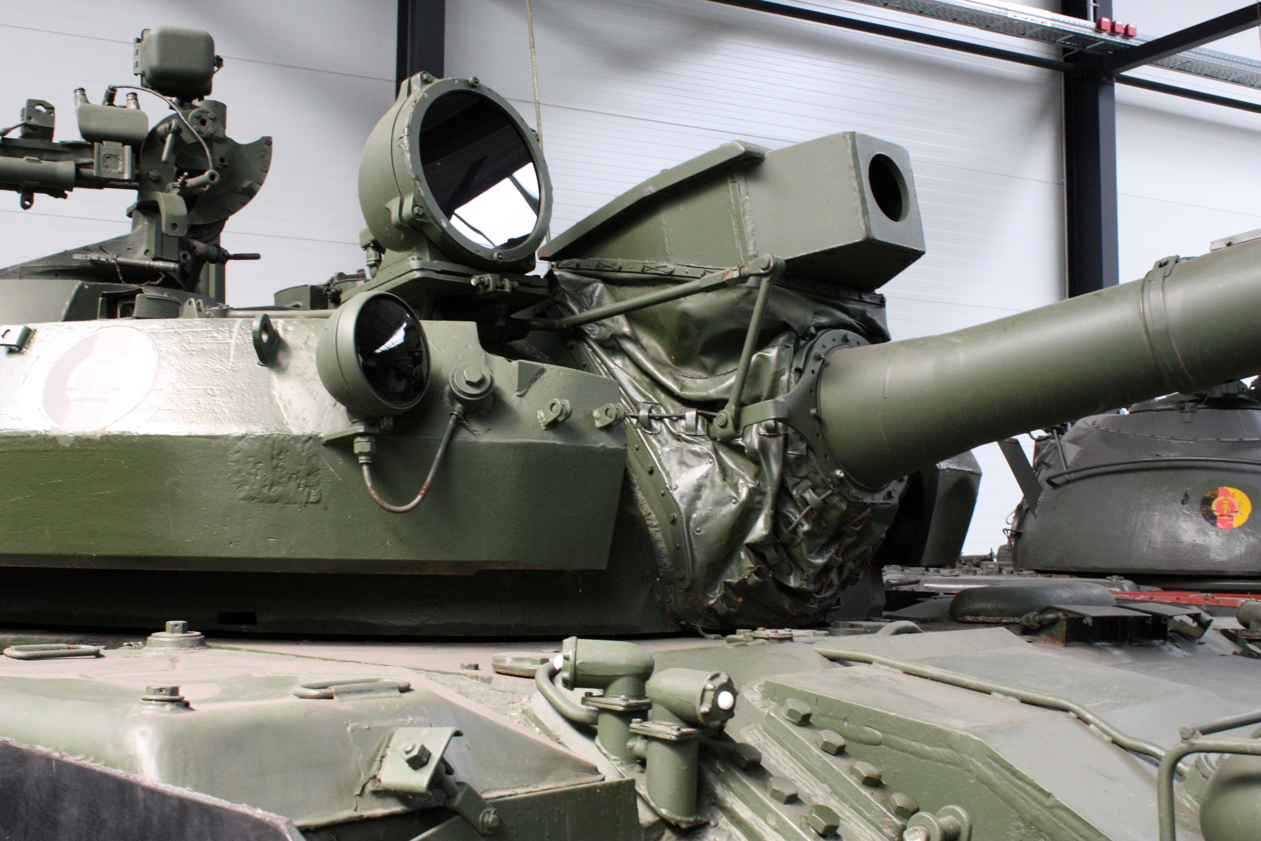 German Tank Museum